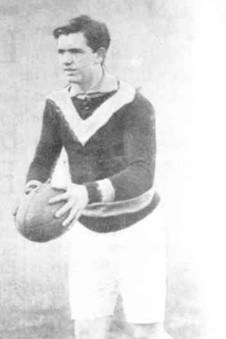 Photograph of Norm Richards from the 1910 Weekly Times Victorian Footballer Postcard Series